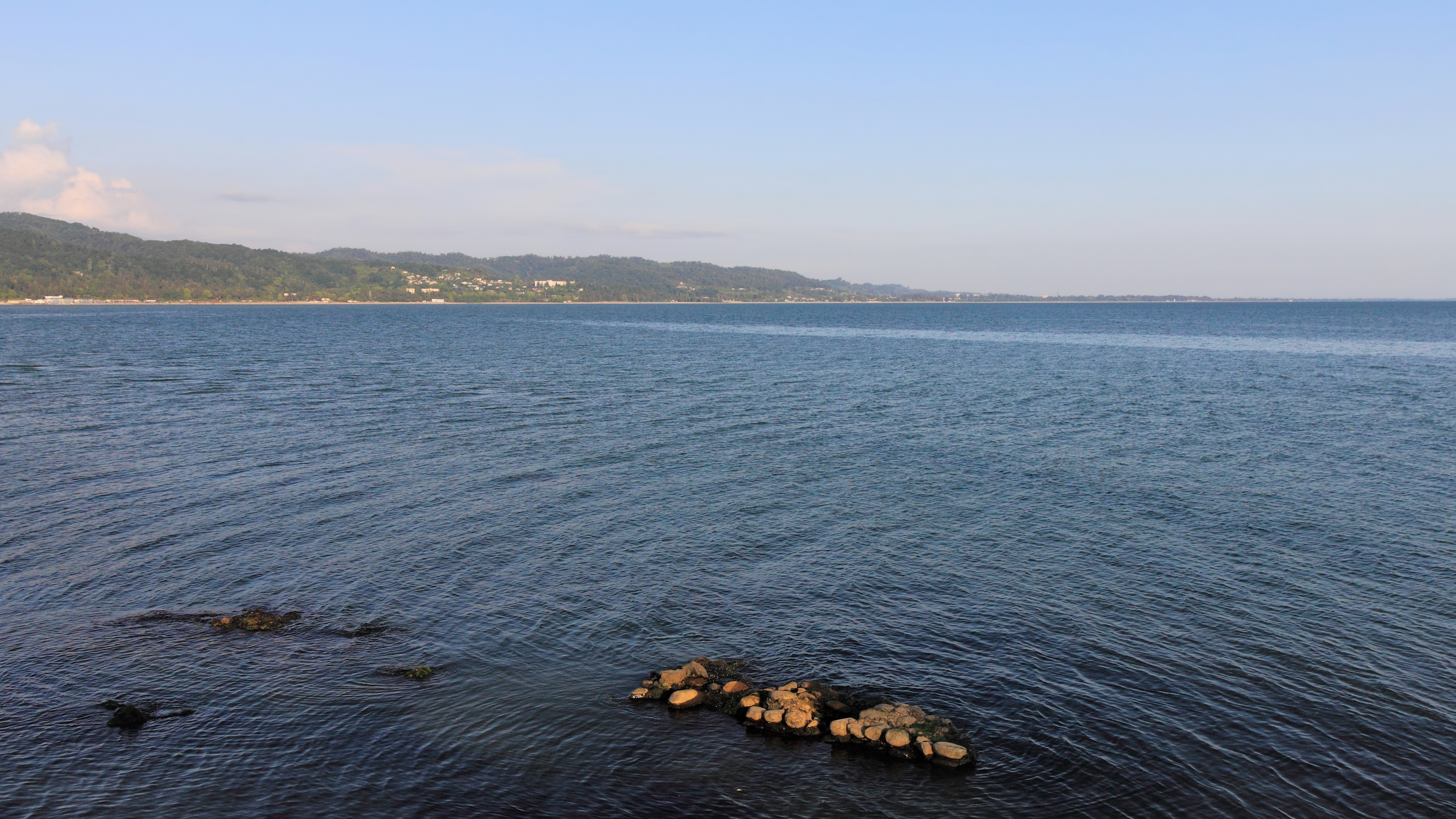 View of the Black Sea. Sukhumi, Abkhazia.